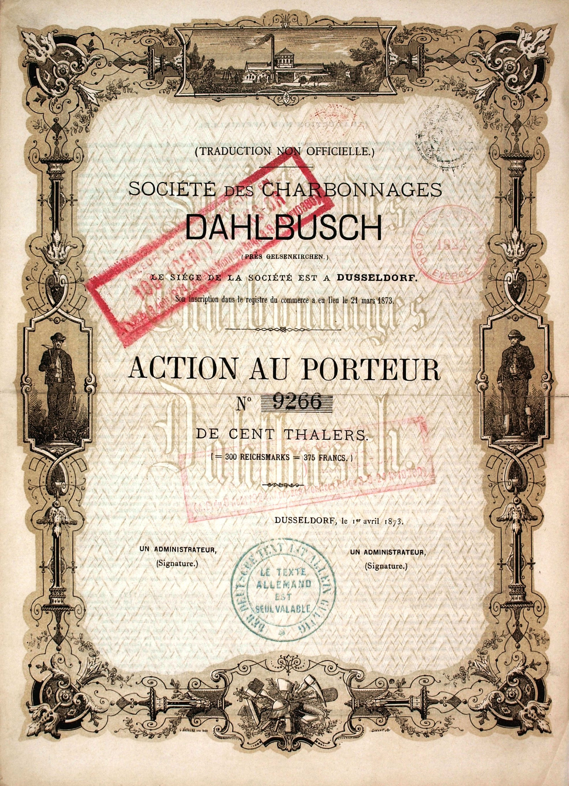 Reverse side of a share of the Bergwerks-Gesellschaft Dahlbusch, issued 1. April 1873; front side shows the share in german